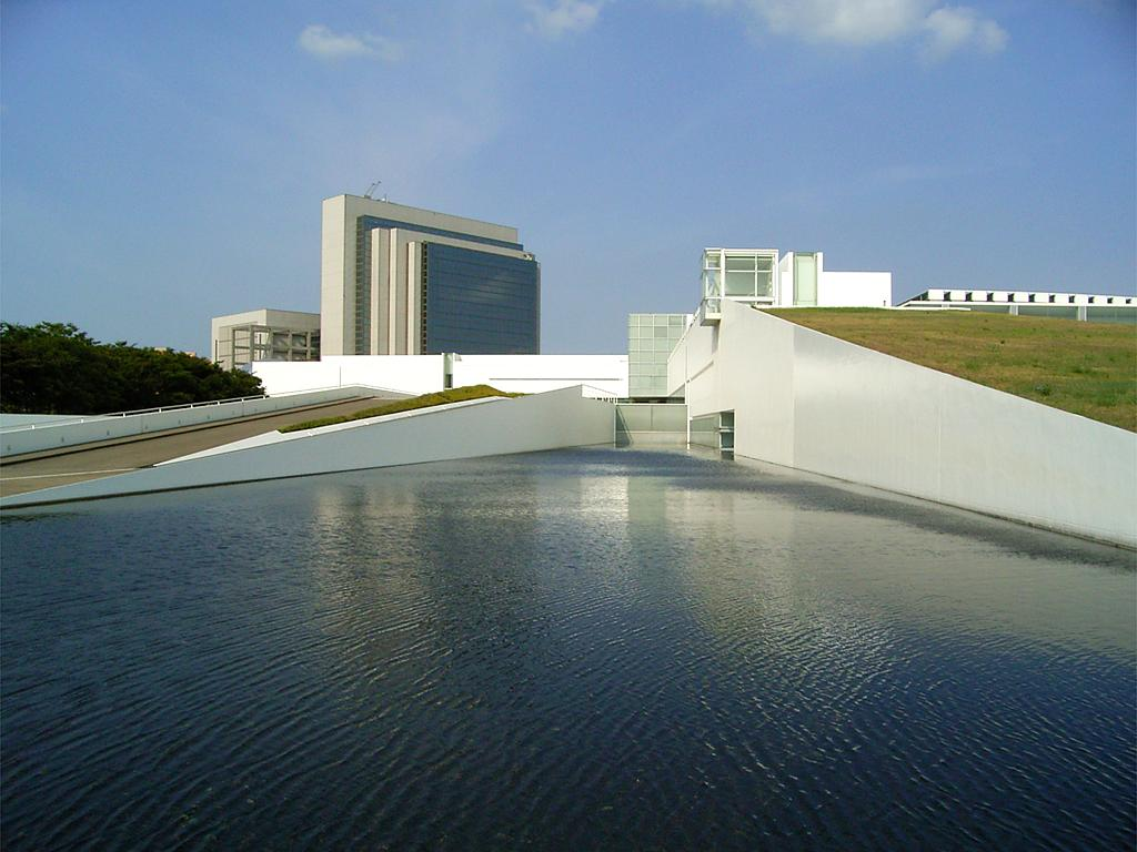 Takenaka Research & Development Institute